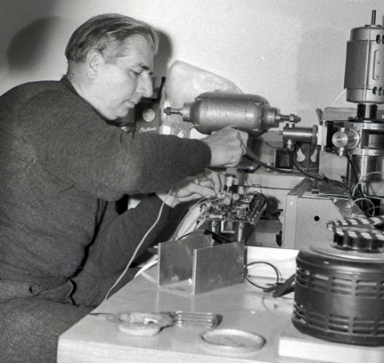 Canadian physicist Hugh Le Caine working in the Centre for Electronic Music in Israel, Jerusalem